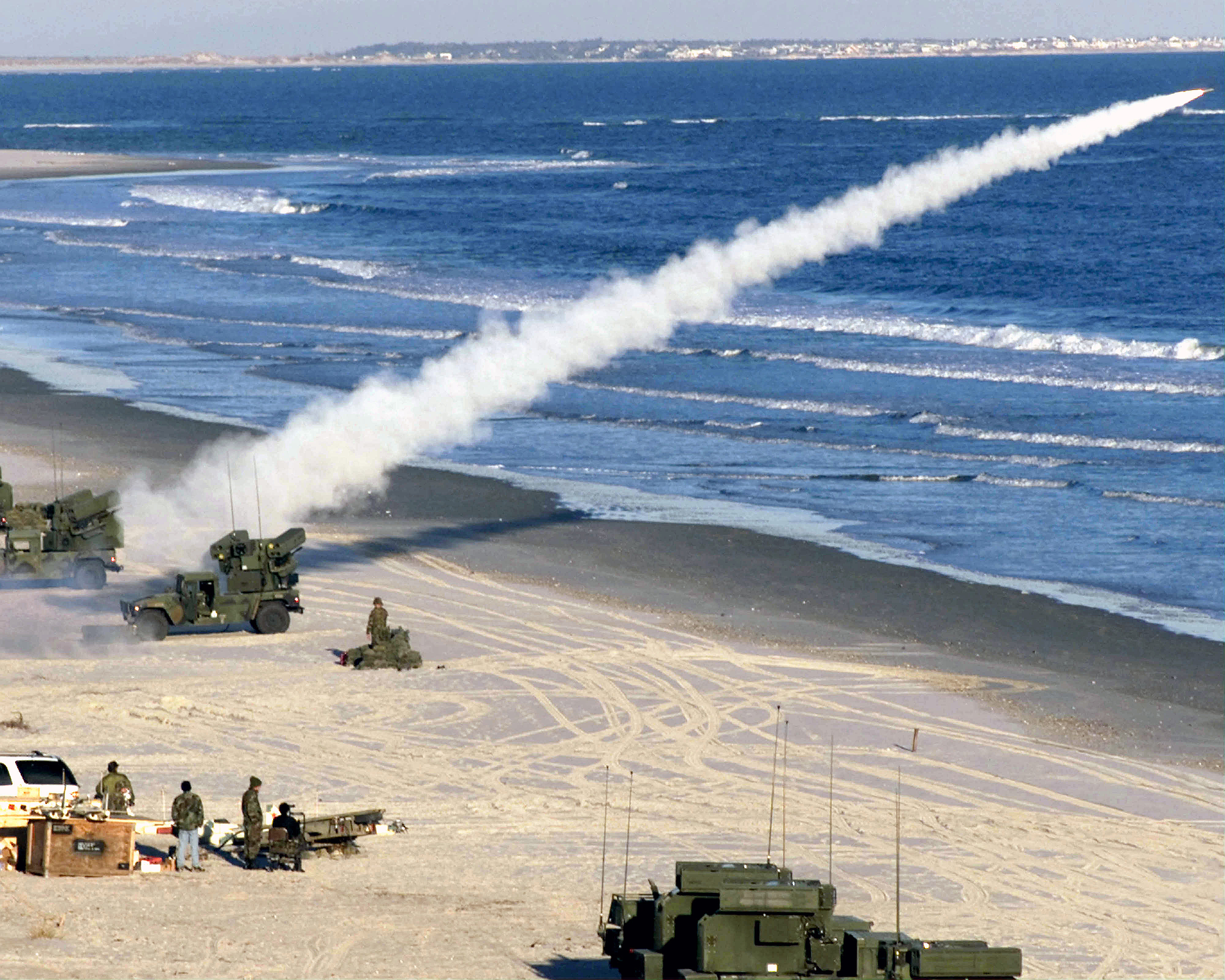 U.S. Marines watch as a Stinger missile is launched from a AN/TWQ-1 Avenger, during a training exercise at Onslow Beach, North Carolina, in April 2000.